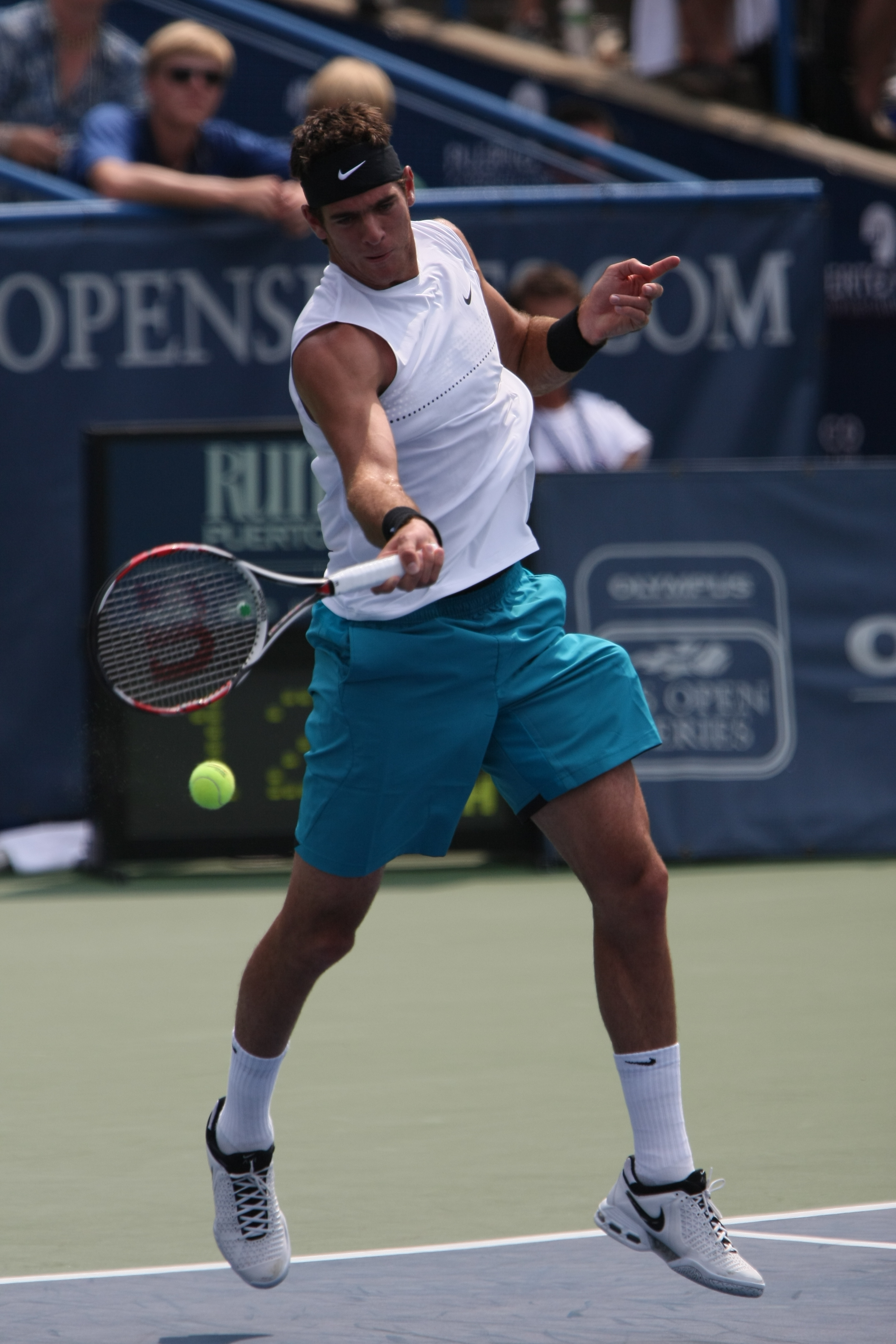 Legg Mason Tennis Tournament 08/08/09